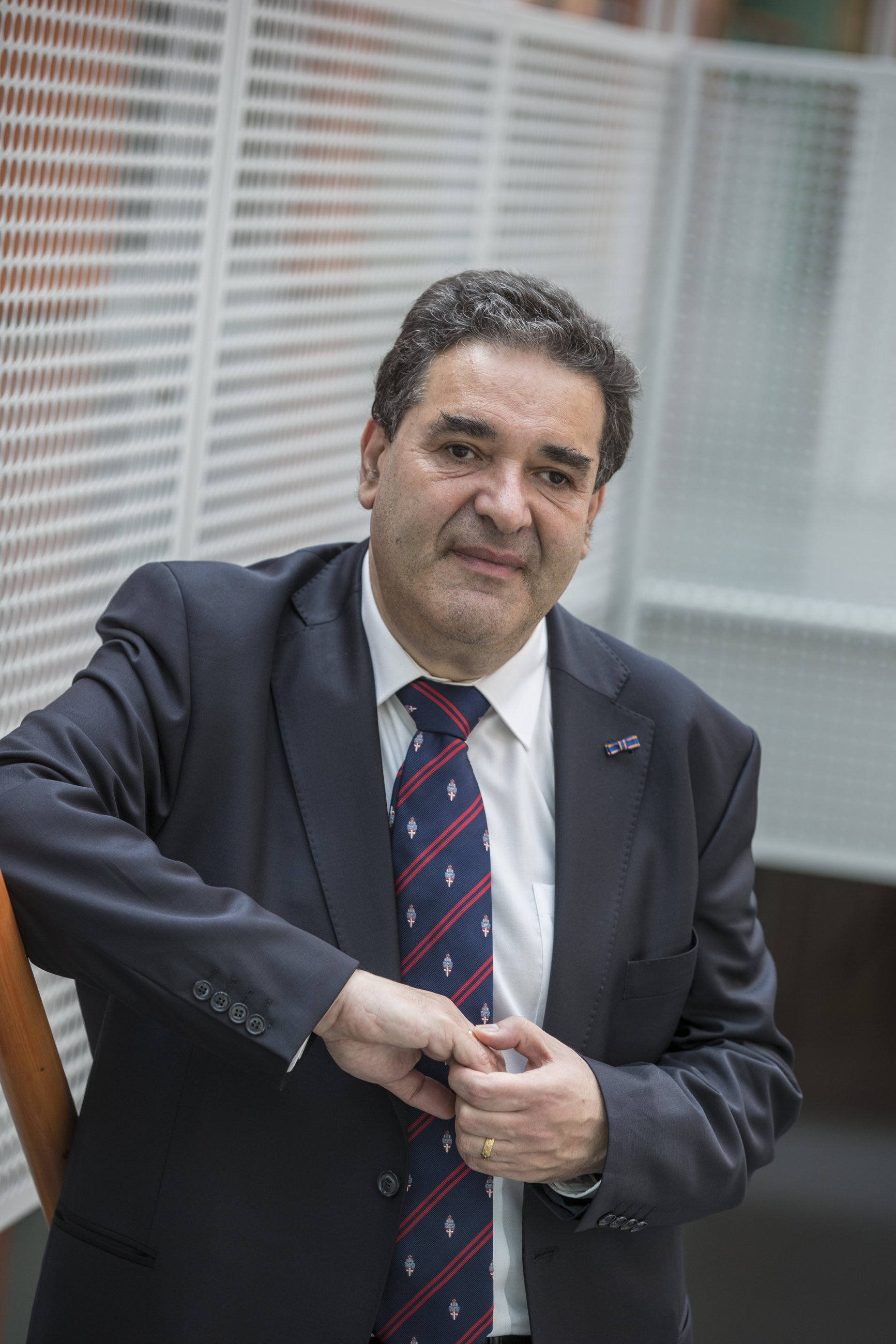 Dutch Russian physicist Mikhail Katsnelson (2013)